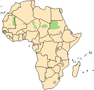 distribution of Addax nasomaculatus (invalid at 2015)